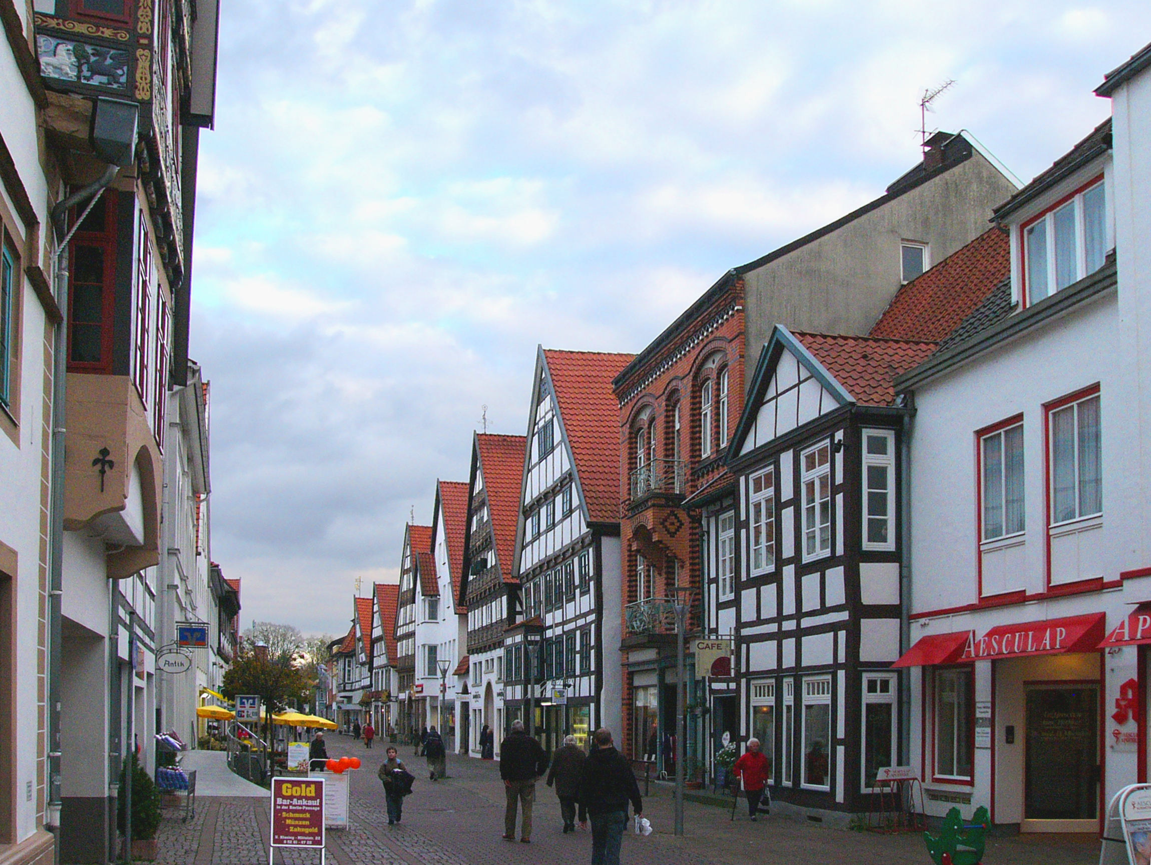 Mittelstrasse in Lemgo, Germany